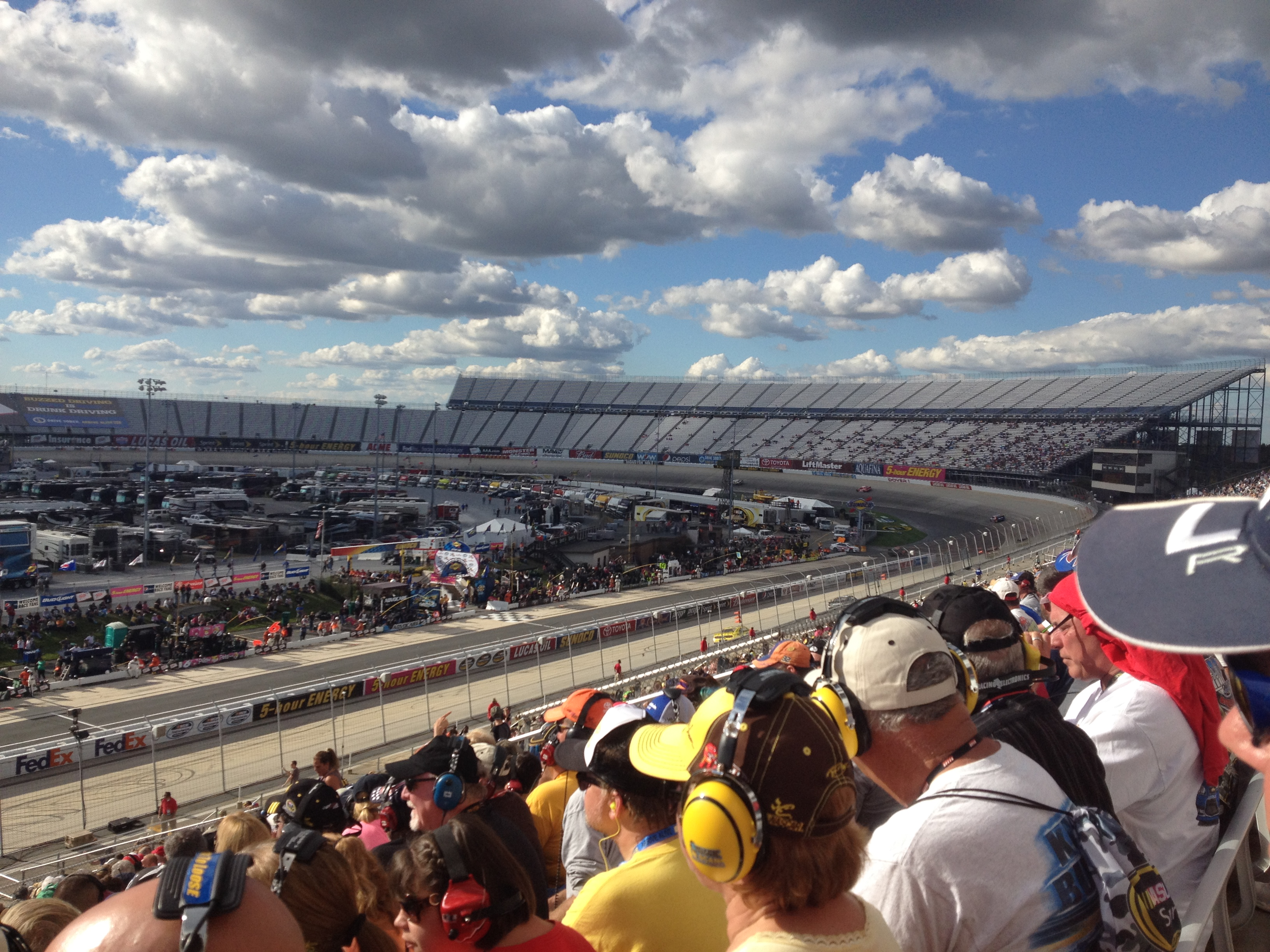 The September 2013 5-hour Energy 200 at Dover International Speedway viewed from the start/finish line. Kyle Busch (#54) leads Joey Logano (#22).